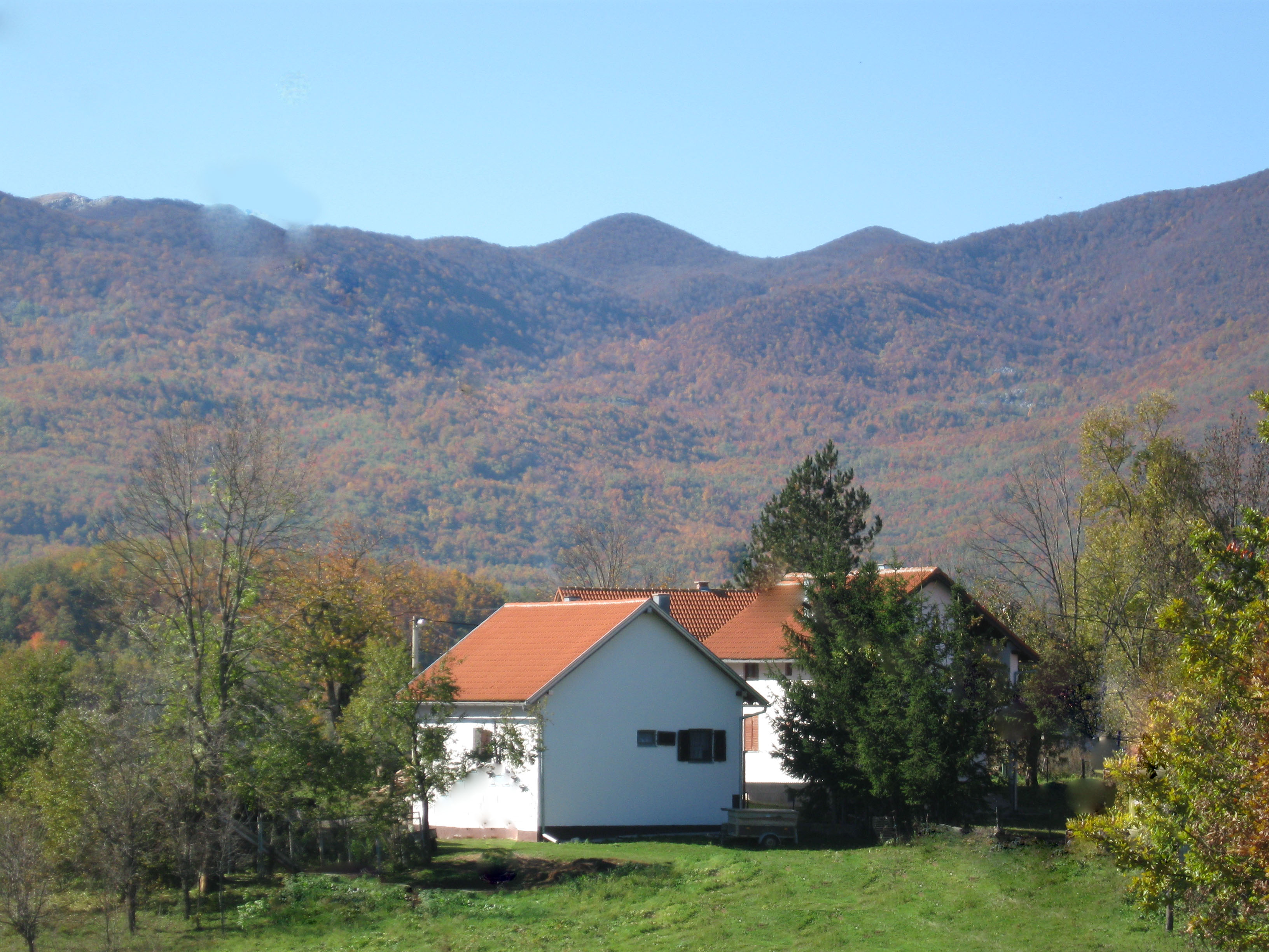 Valley near Velebit in Lika.